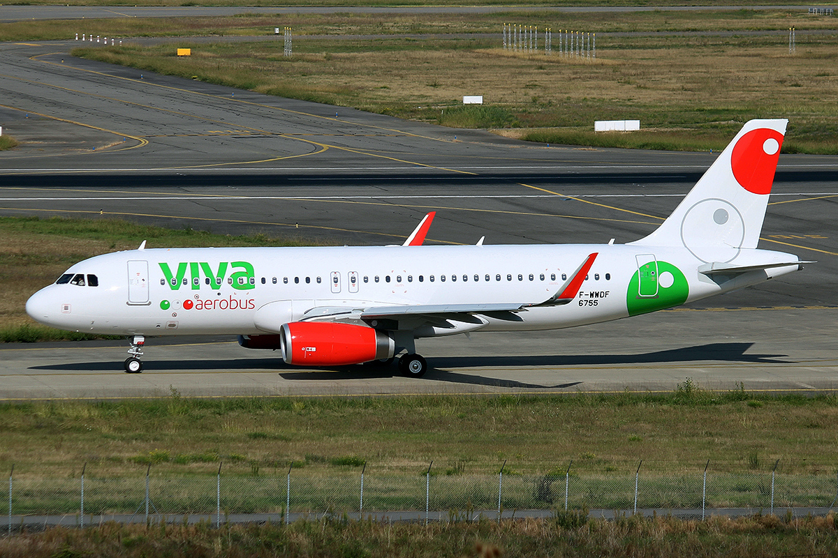 VivaAerobus Airbus A320 at Toulouse